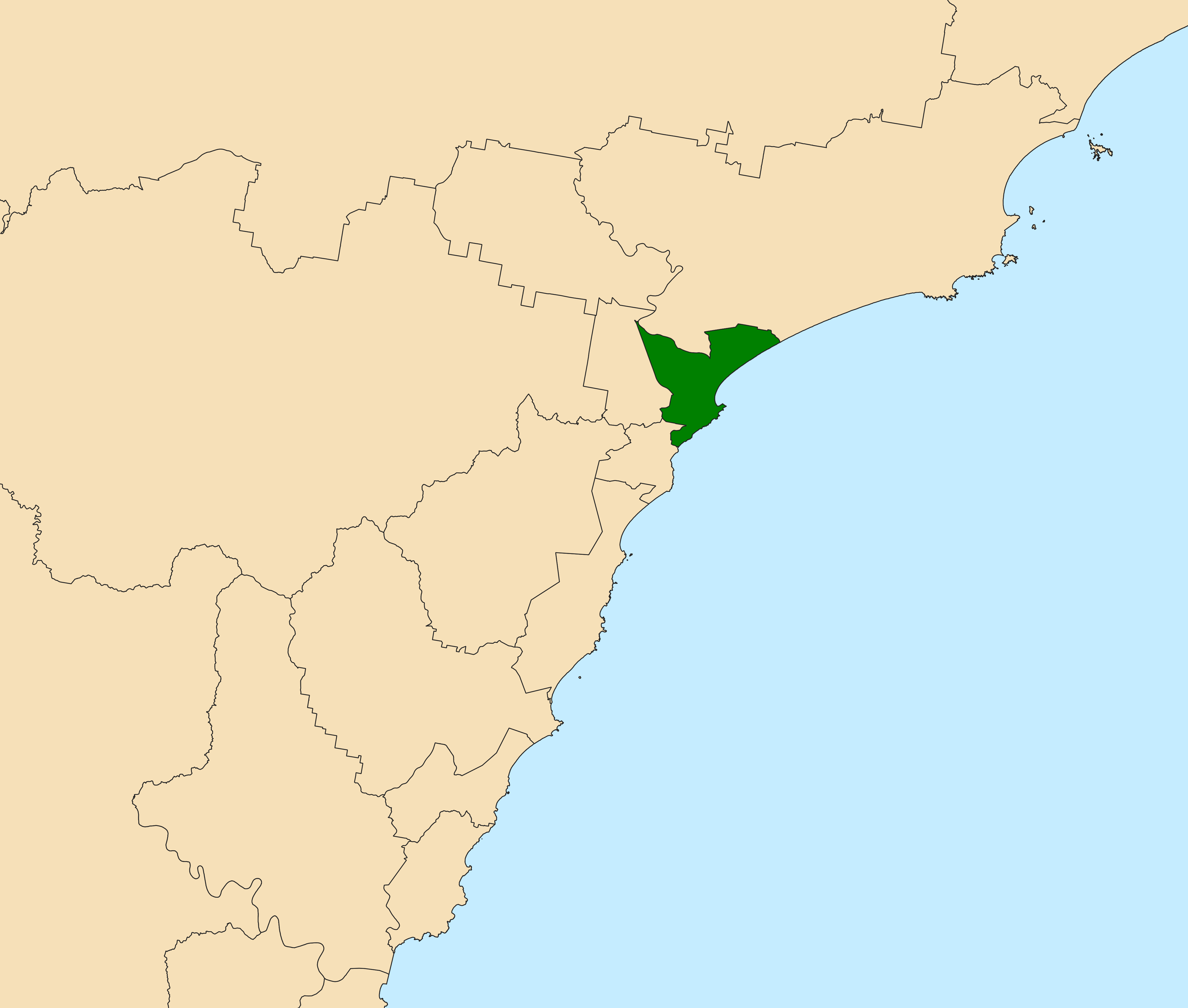 Location of the state electoral district of Newcastle (dark green) in the Central Coast region of New South Wales, Australia as of the 2019 New South Wales state election. Incorporates or developed using Administrative Boundaries ©PSMA Australia Limited licensed by the Commonwealth of Australia under Creative Commons Attribution 4.0 International licence (CC BY 4.0).